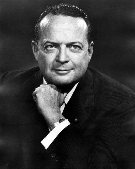 George C. McGhee, Director, U.S. Commercial Co., 1946; Special Assistant to Under Secretary for Economic Affairs, U.S. Department of State, 1946-47; Coordinator for Aid to Greece and Turkey, 1947; Special Assistant to Under Secretary of State, 1947-49; Special Assistant to Secretary of State, March-June 1949; Assistant Secretary for Near Eastern South Asian-African Affairs, 1949-51; and U.S. Ambassador and Chief of American Mission for Aid to Turkey, 1951-53. Also served as Senior Adviser, North Atlantic Treaty Council, Ottawa, Canada, 1951.